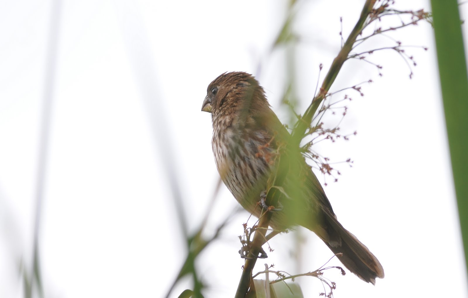 A female Grosbeak Weaver in Rwanda